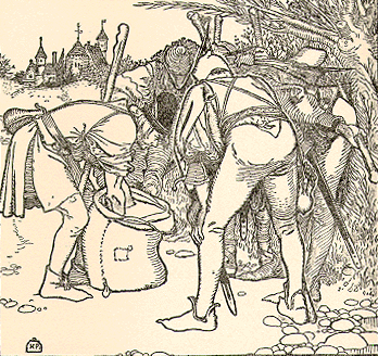 The Four Yeomen Have Merry Sport with a Stout Miller (Much the Miller's son / Midge the Miller)